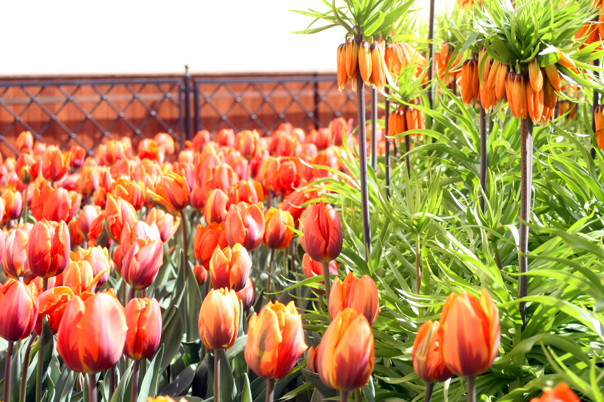 Suspended garden of the Small Hermitage. St. Petersburg. Fritillaria and Tulips